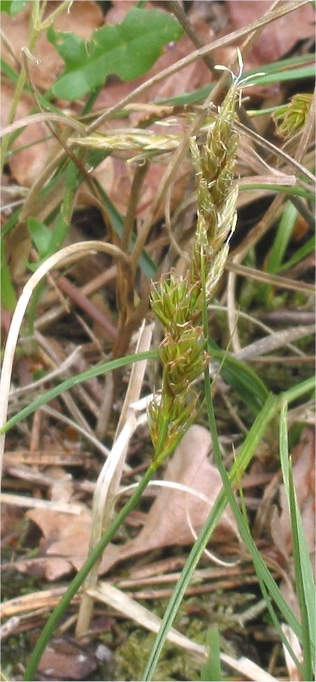 Carex arenaria inflorescens